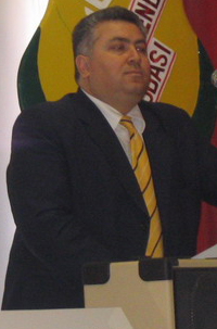 Mehmet Çakıcı, President of People's Democracy Party (Toplumcu Demokrasi Partisi - TDP) in Northern Cyprus.